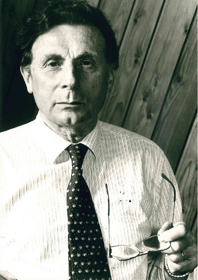 Portrait of Enzo Demattè